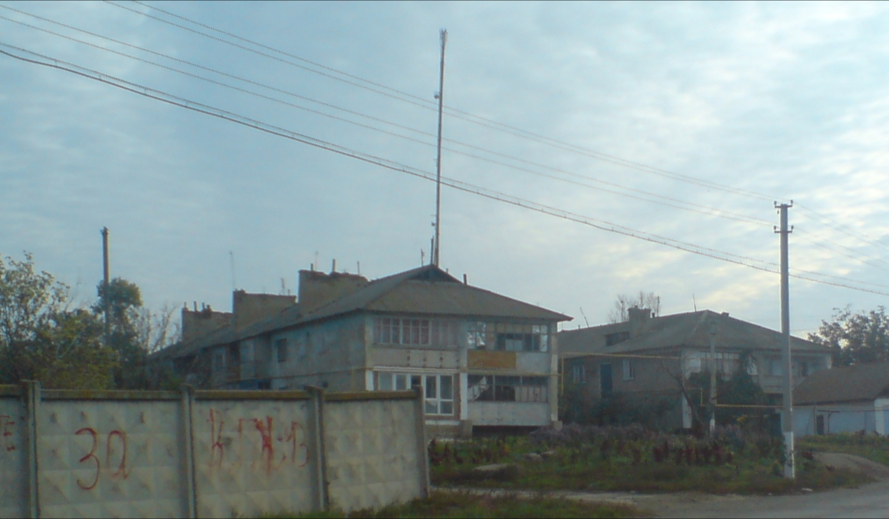 Elevatorna, Zatyshshia